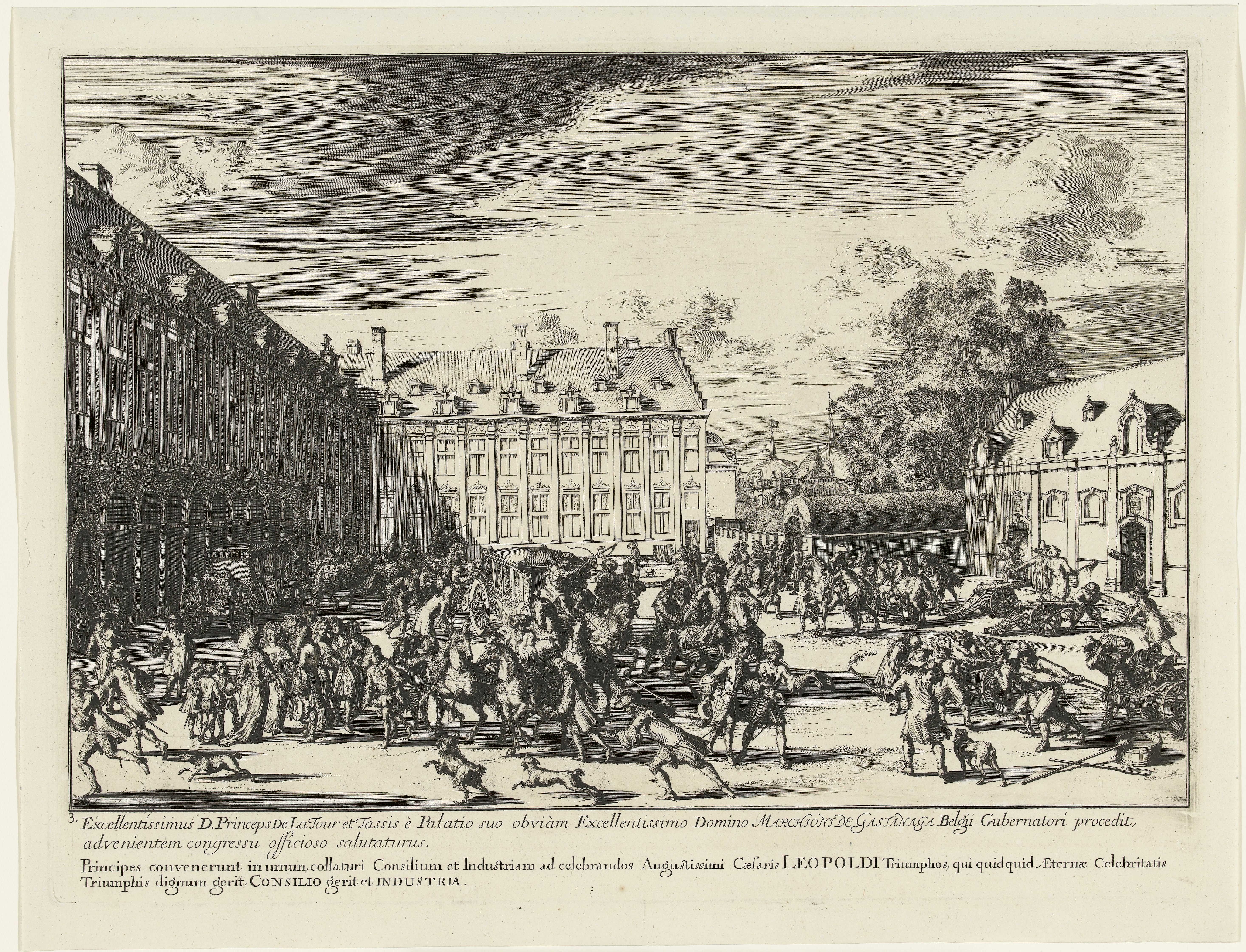 Entrance of Emperor Leopold I in Brussels after his victory over the Turks in 1686